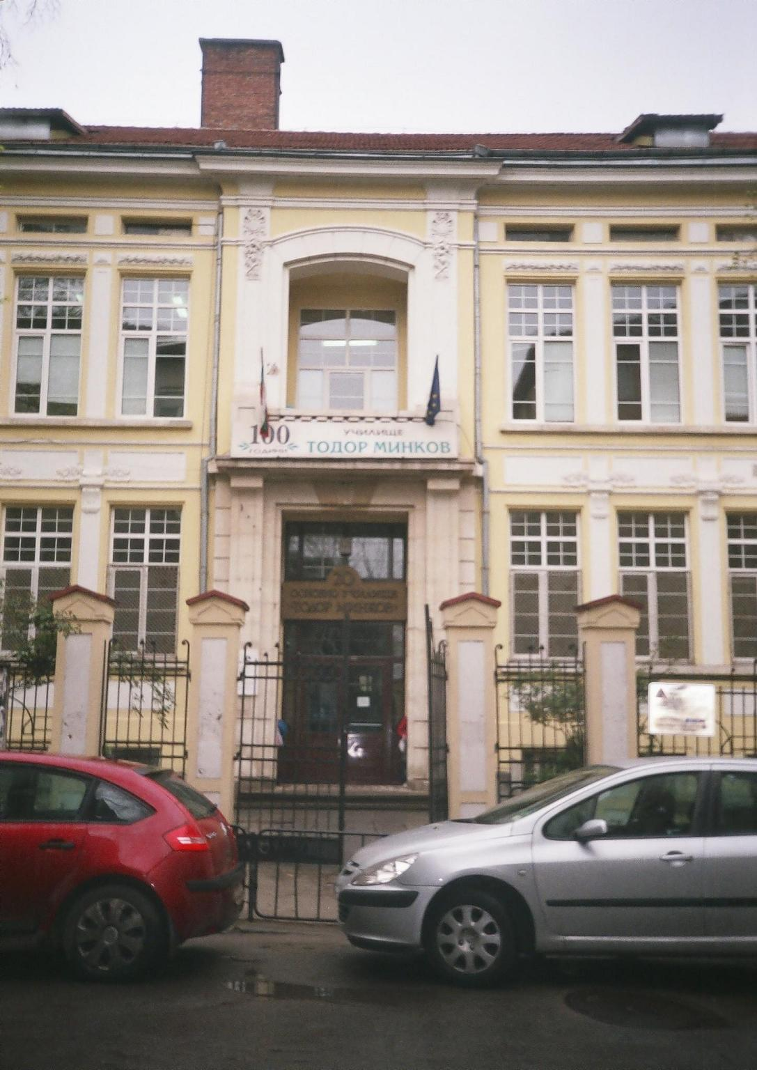 Todor Minkov Primary School, Sofia - main entrance